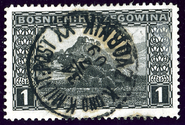 Stamp of Bosnia and Herzegovina, 1 heller issue 1906, cancelled K und K MILIT.POST ZVORNIK XX in 1909. Michel N° 29.